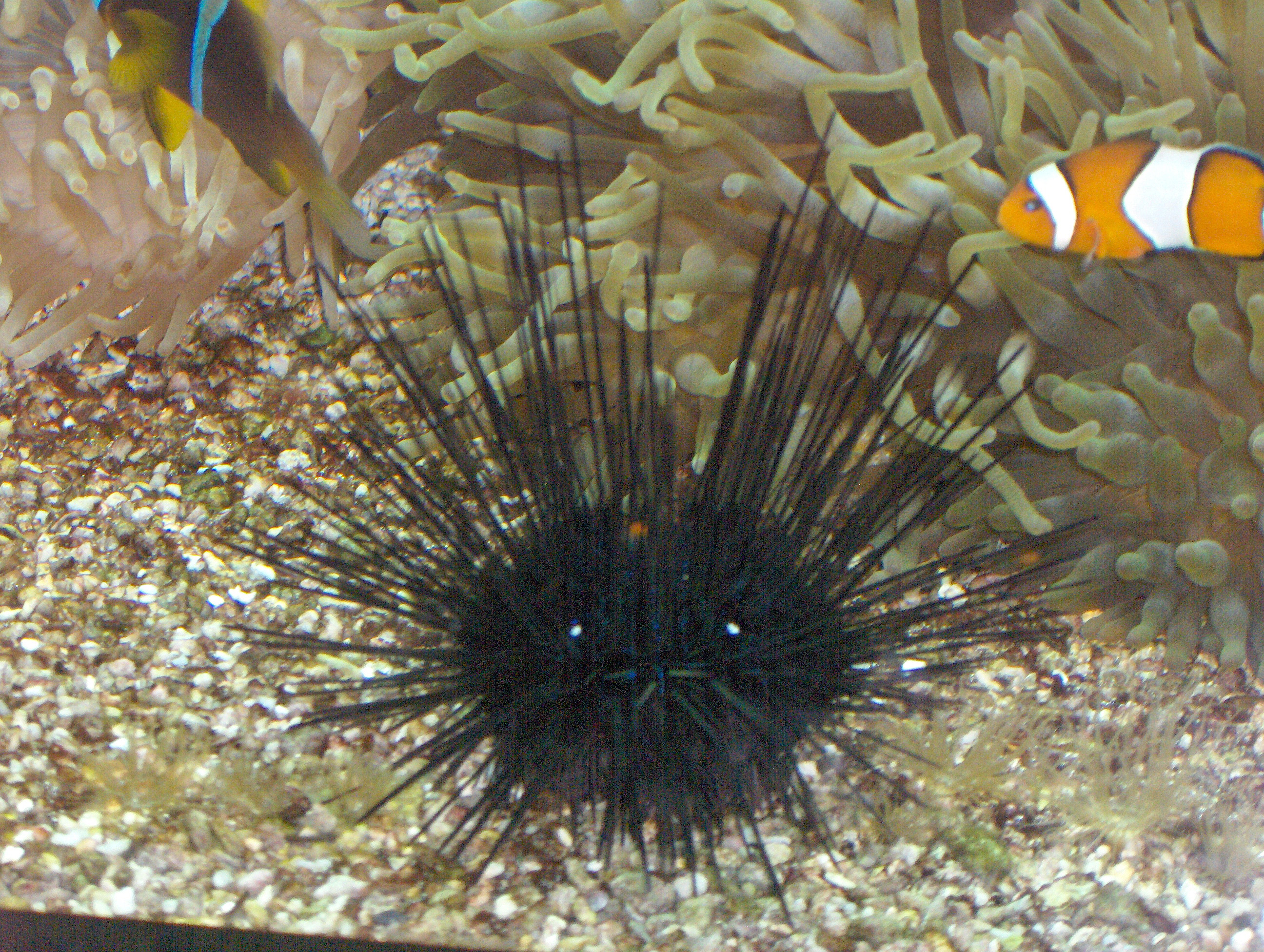 Orange clownfish (Amphiprion percula) above a sea urchin; Musée Océanographique de Monaco